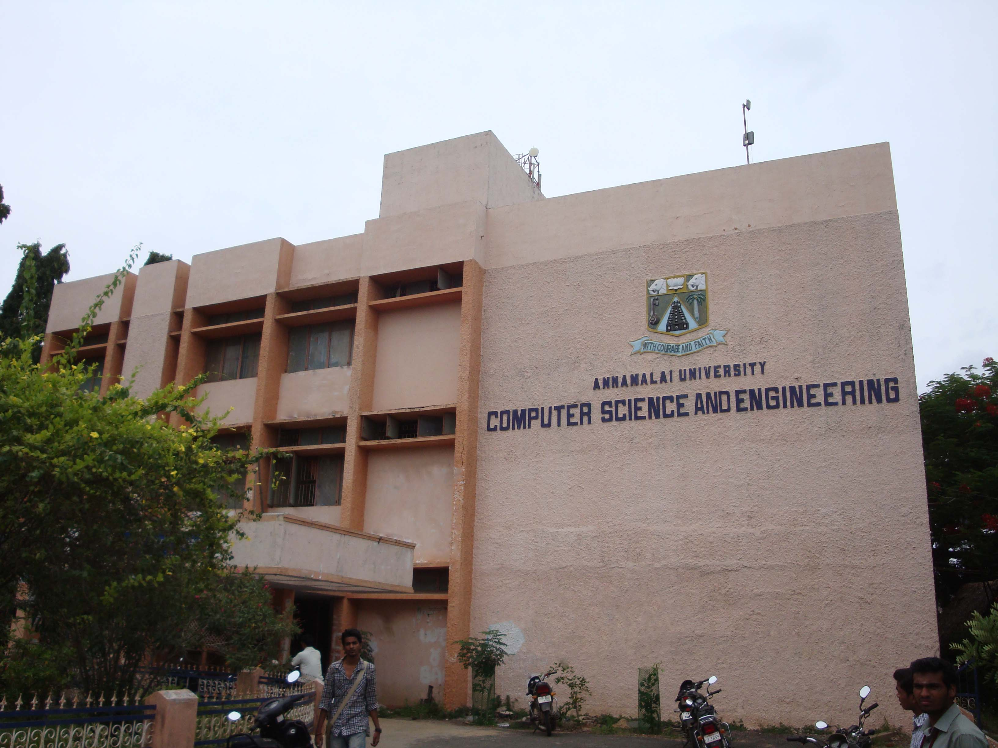 This is the View of the Computer Science and Engineering department, Annamalai University